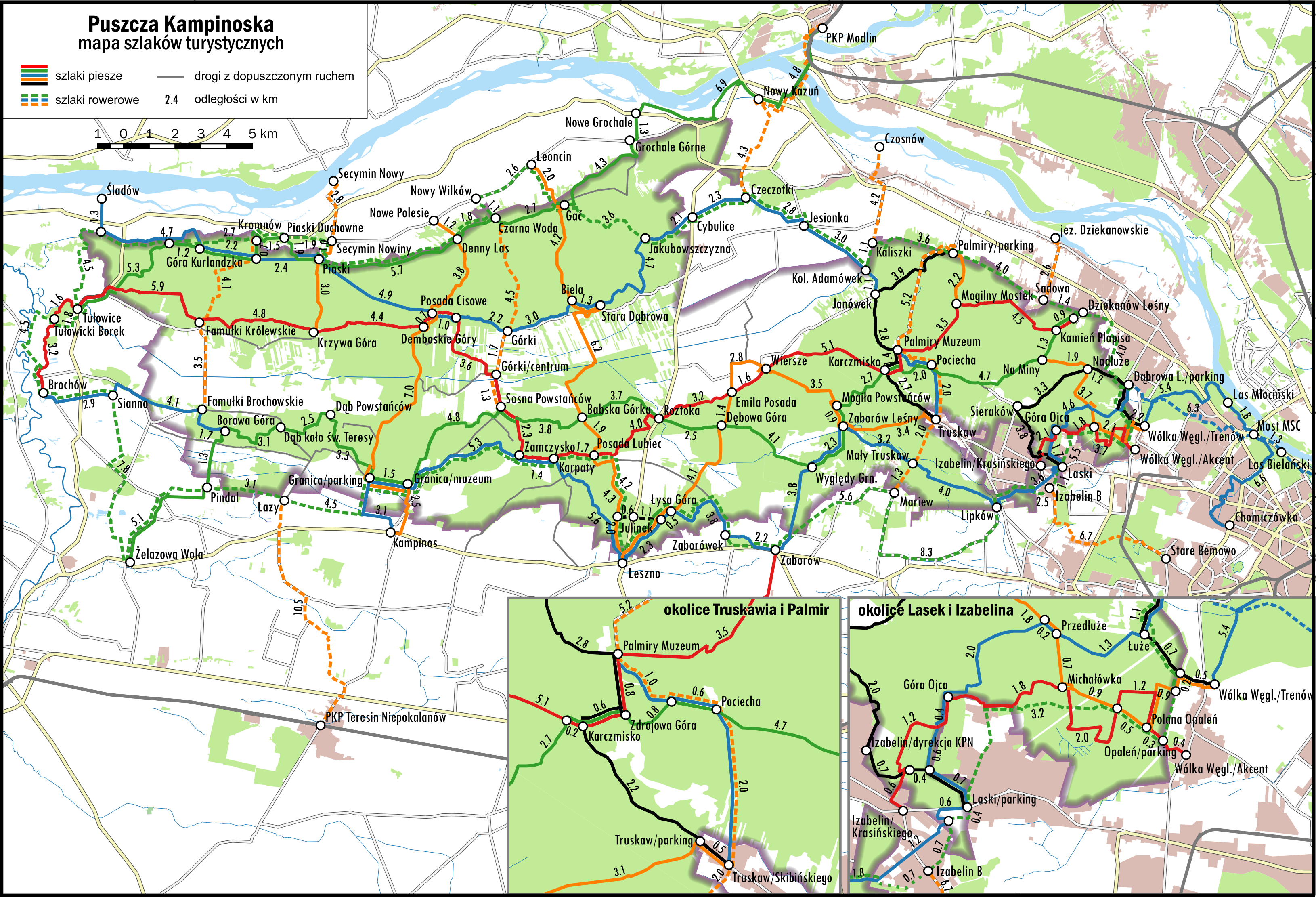 Tourist trails in Kampinos National Park